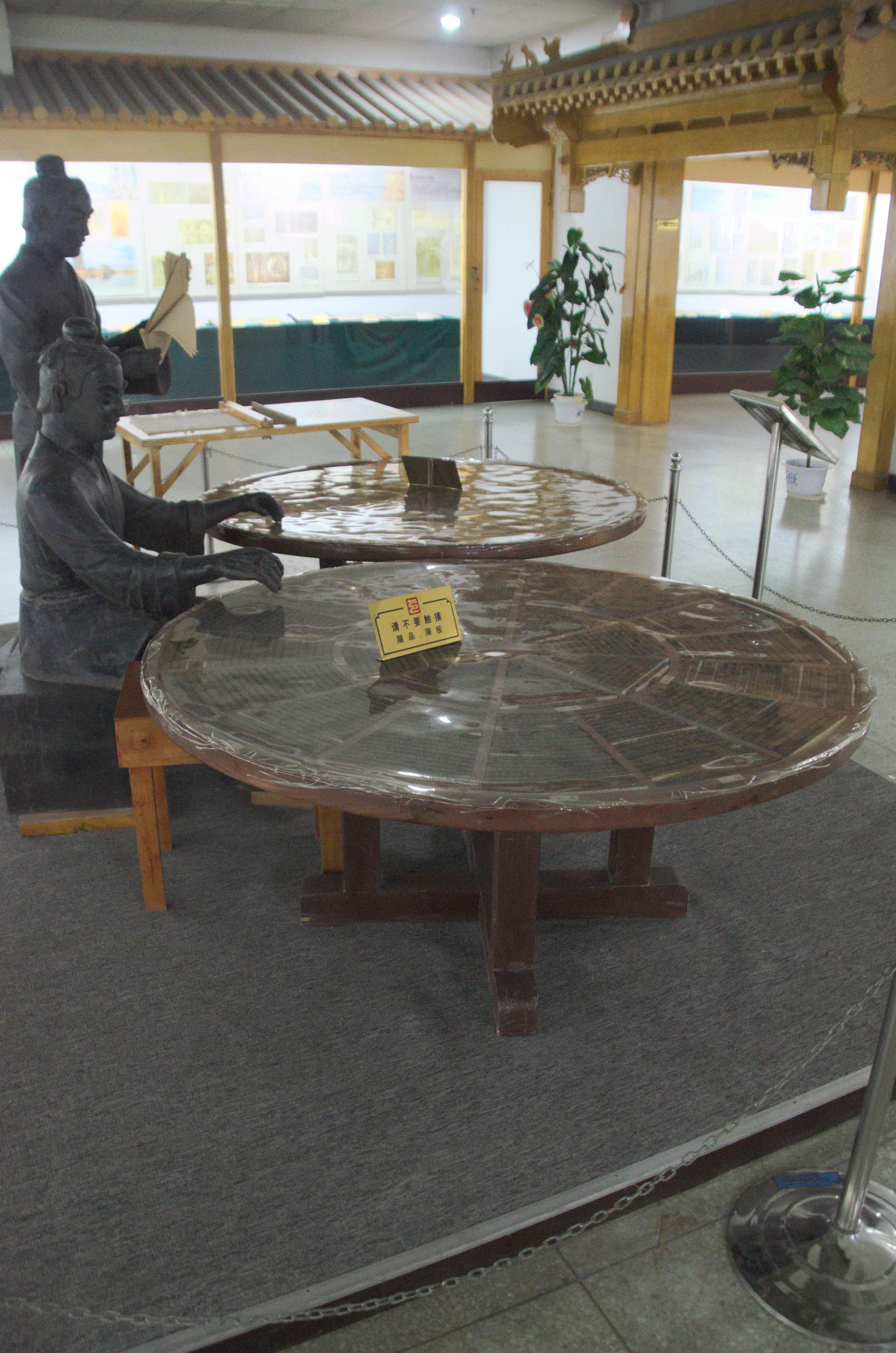 Rebuild of Bi Sheng (毕升/畢昇, 11th century) creation of mobile characters printing tools at the China Printing Museum (中国印刷博物馆).